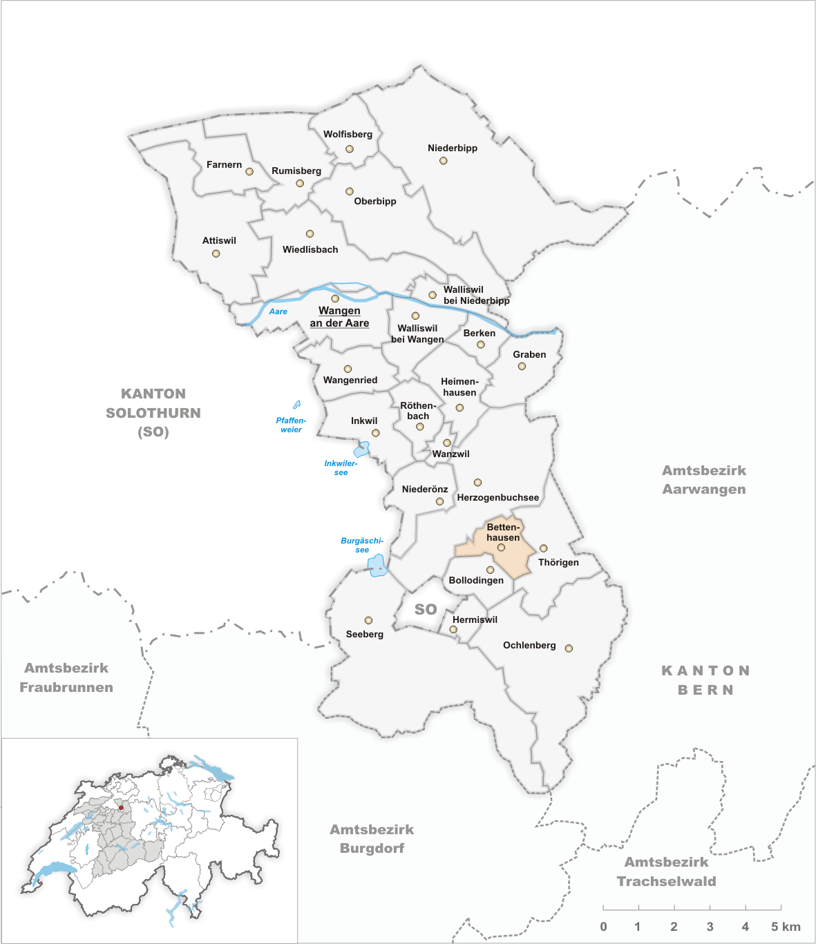 Municipality Bettenhausen